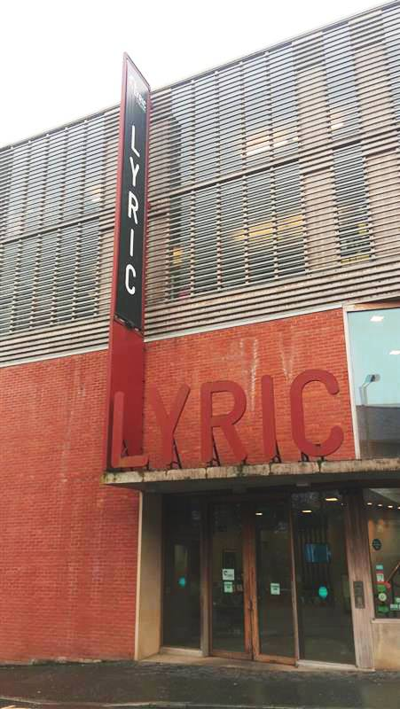 This is an image of the front entrance of the Lyric Theatre, Belfast